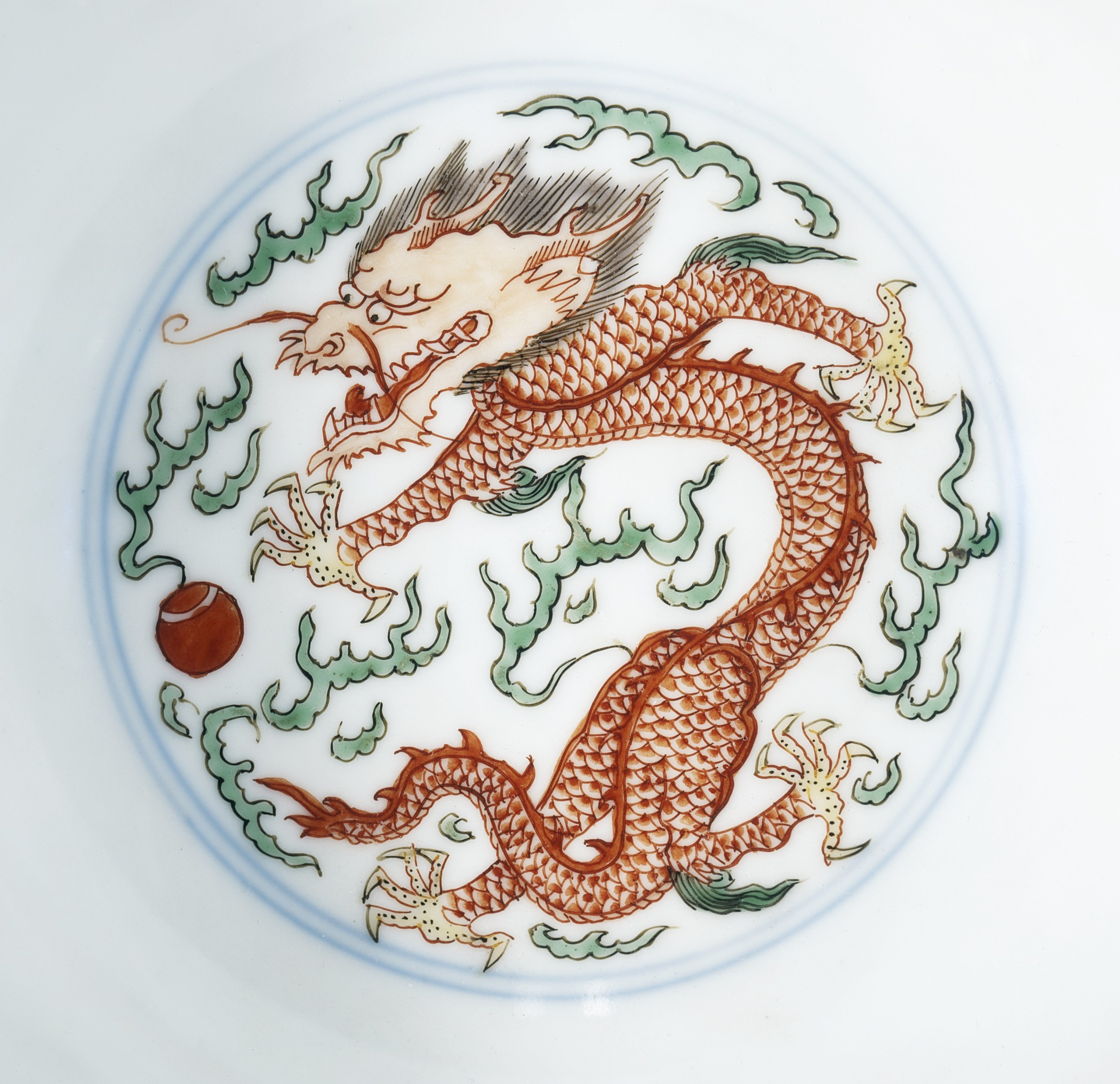 China, Jiangxi Province, Jingdezhen, Chinese, Qing dynasty, Kangxi mark and period, 1662-1722 Furnishings; Serviceware Wheel-thrown porcelain with underglaze blue, clear glaze, and overglaze painted enamel decoration (doucai) Gift of Mr. and Mrs. Jack G. Kuhrts (58.51.2a-b) Chinese Art